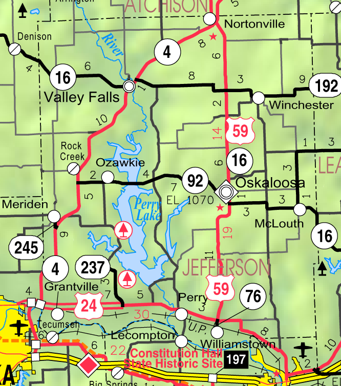 This map of Jefferson County, Kansas, USA, is copied at a resolution of 300 pixels/inch from the original PDF file.